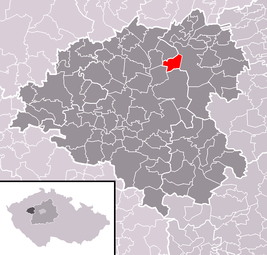 Location of Krušovice municipality within Rakovník District and (identical) administrative area of Rakovník as a Municipality with Extended Competence.